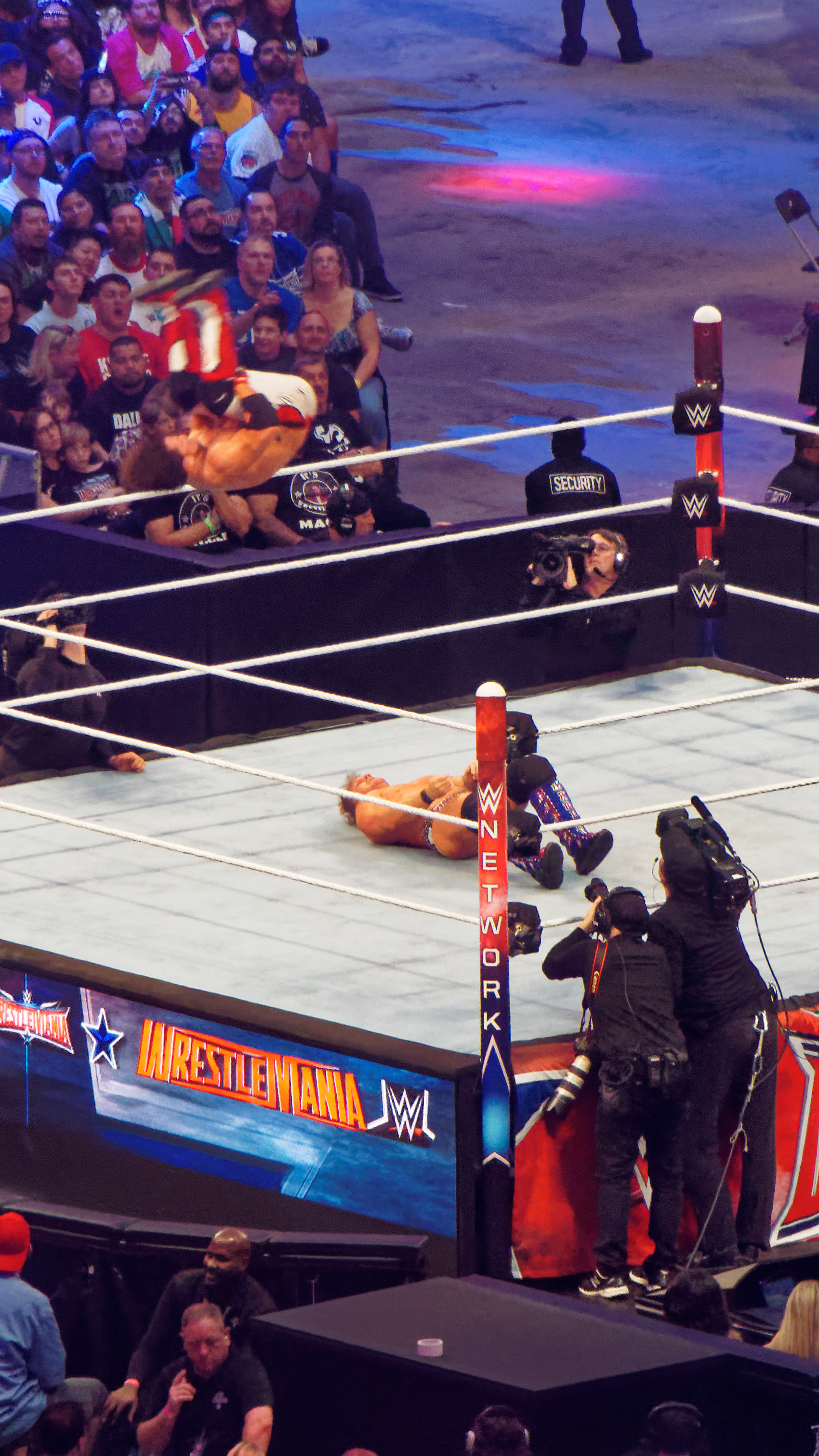 WrestleMania 32 was the thirty-second annual WrestleMania professional wrestling pay-per-view (PPV) event produced by WWE. It took place on April 3, 2016, at AT&T Stadium in Arlington, Texas. Twelve matches were contested on the card (with three matches occurring on the WrestleMania Kickoff pre-show - two airing live on the USA Network, which televised the second hour of the pre-show). Chris Jericho def. (pin) A.J. Styles (in 17:09) Rating : ***3/4